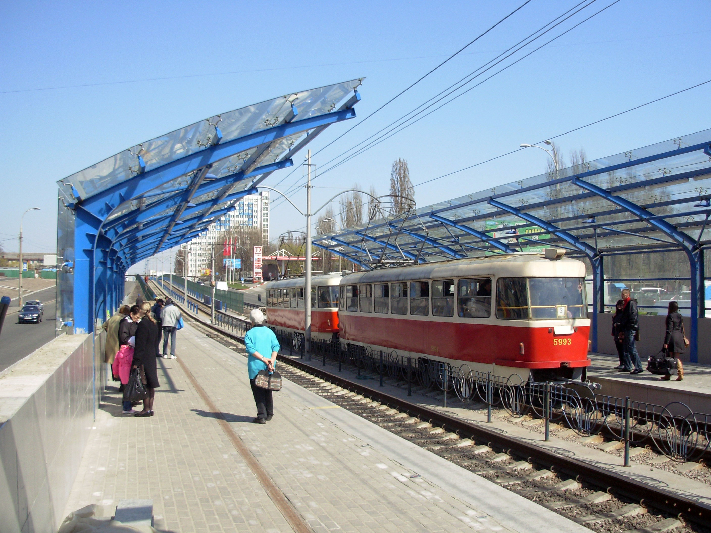 Heroiv Sevastopolya Station of Kyiv Fast Tram after renovation, 2011